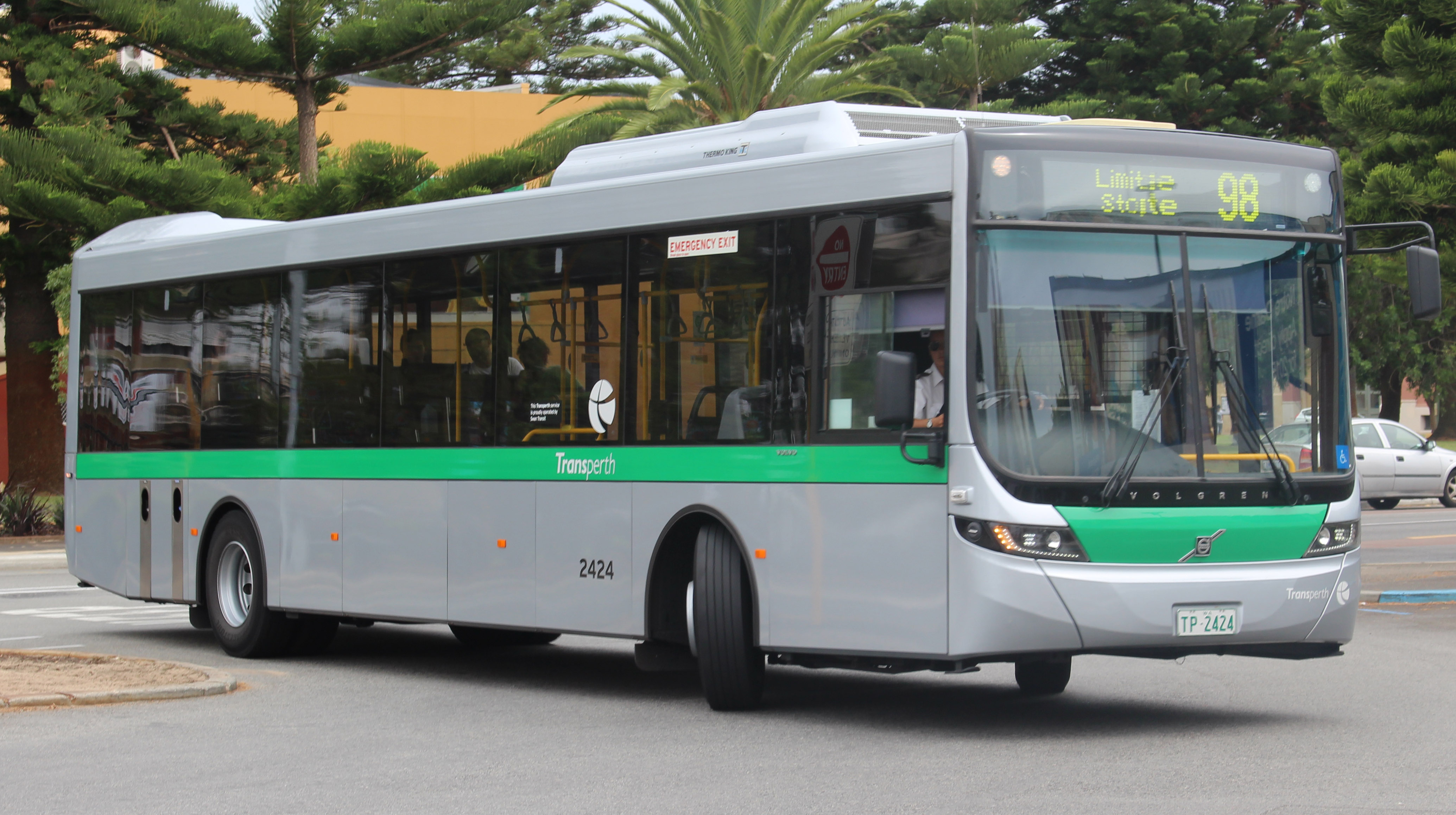 Transperth-Volvo-B7RLE-Volgren-Optimus Mark III bus at Fremantle Station